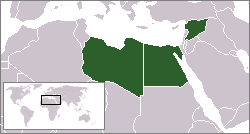 Map of The Federation of Arab Republics, 1972 to ca. 1977. For the flag, see Image:Flag_of_Egypt_1972.svg .